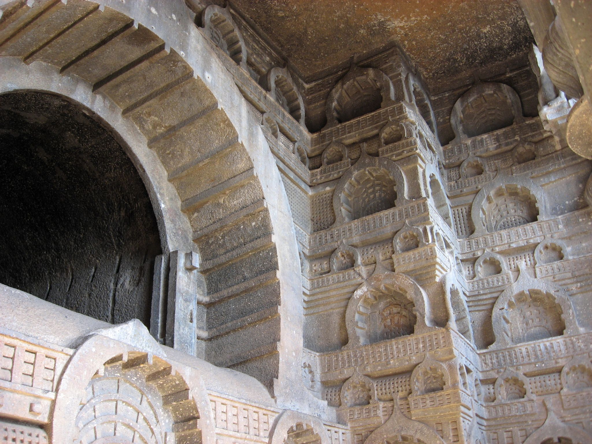 Carvings above the Bedse caves main entrance.